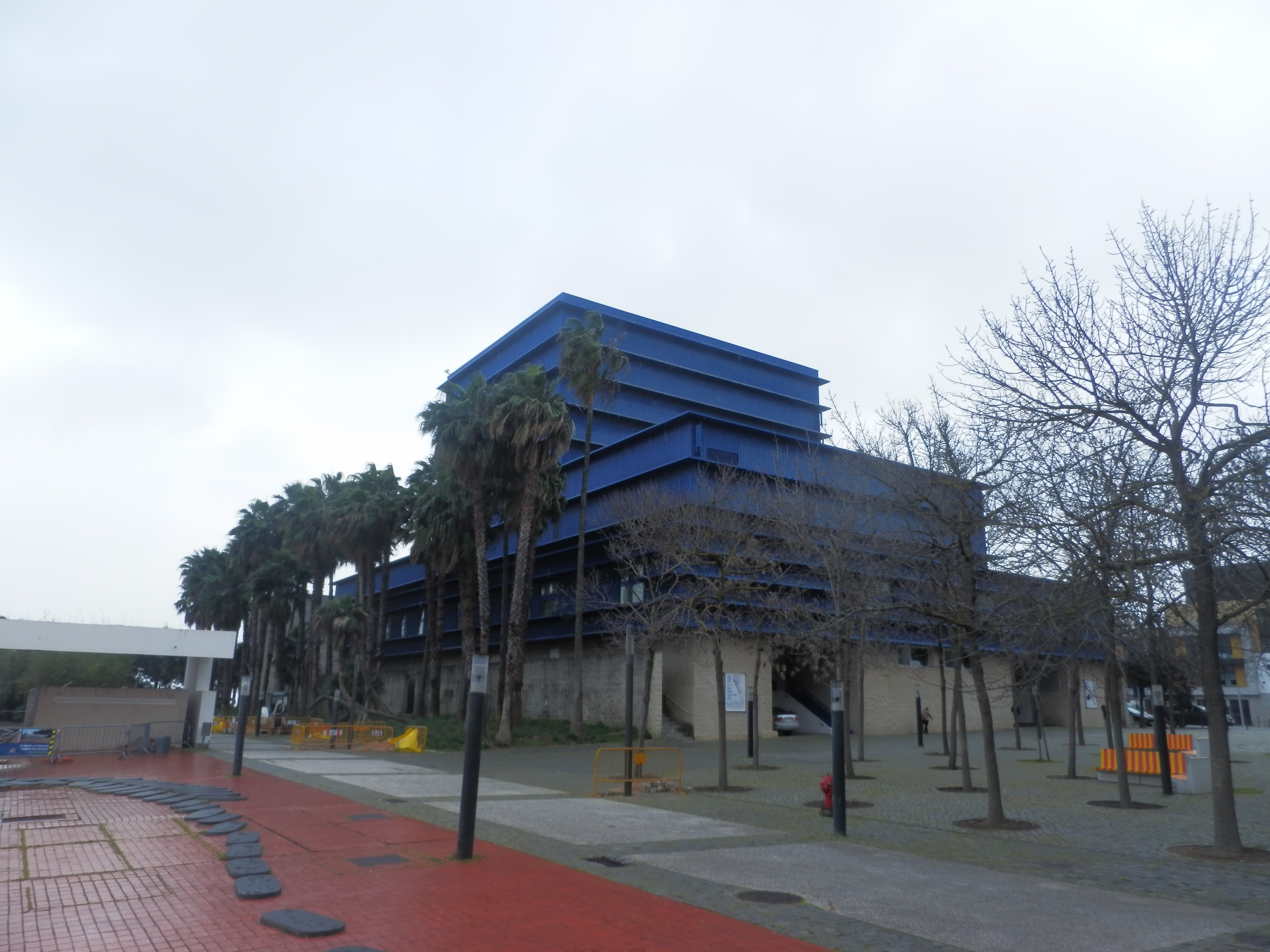 Teatro Camões from the back